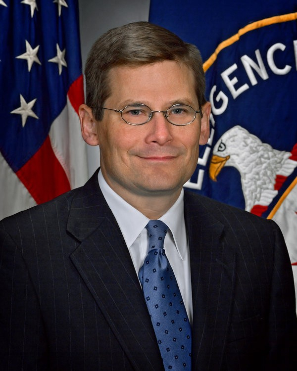 Official photo of Michael Morell, Deputy Director of the Central Intelligence Agency